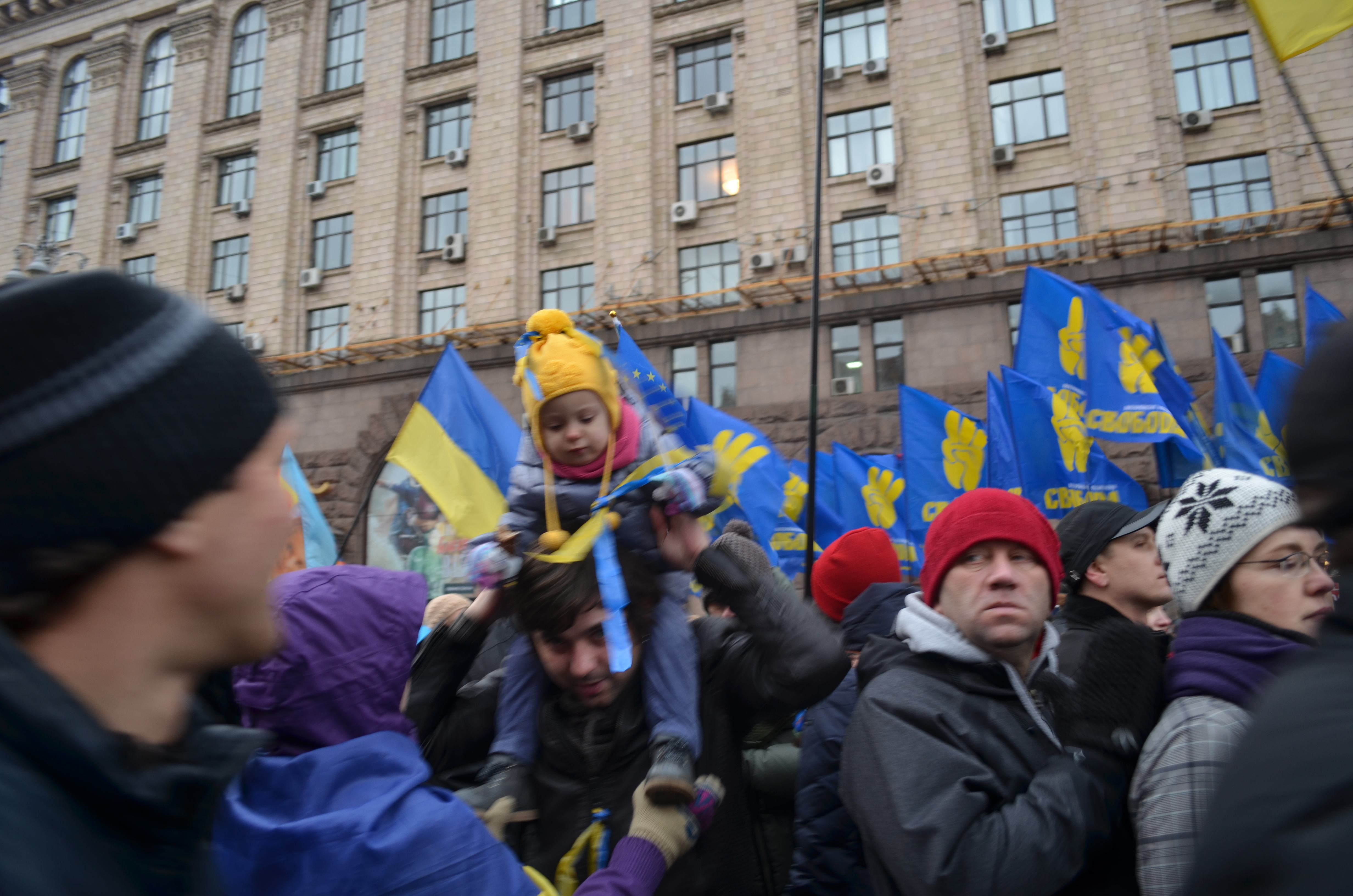 Euromaidan in Kyiv 01/DEC/13